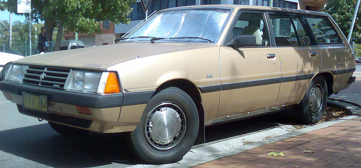 1983 Mitsubishi Sigma (GJ) SE station wagon. Photographed in Miranda, New South Wales, Australia.